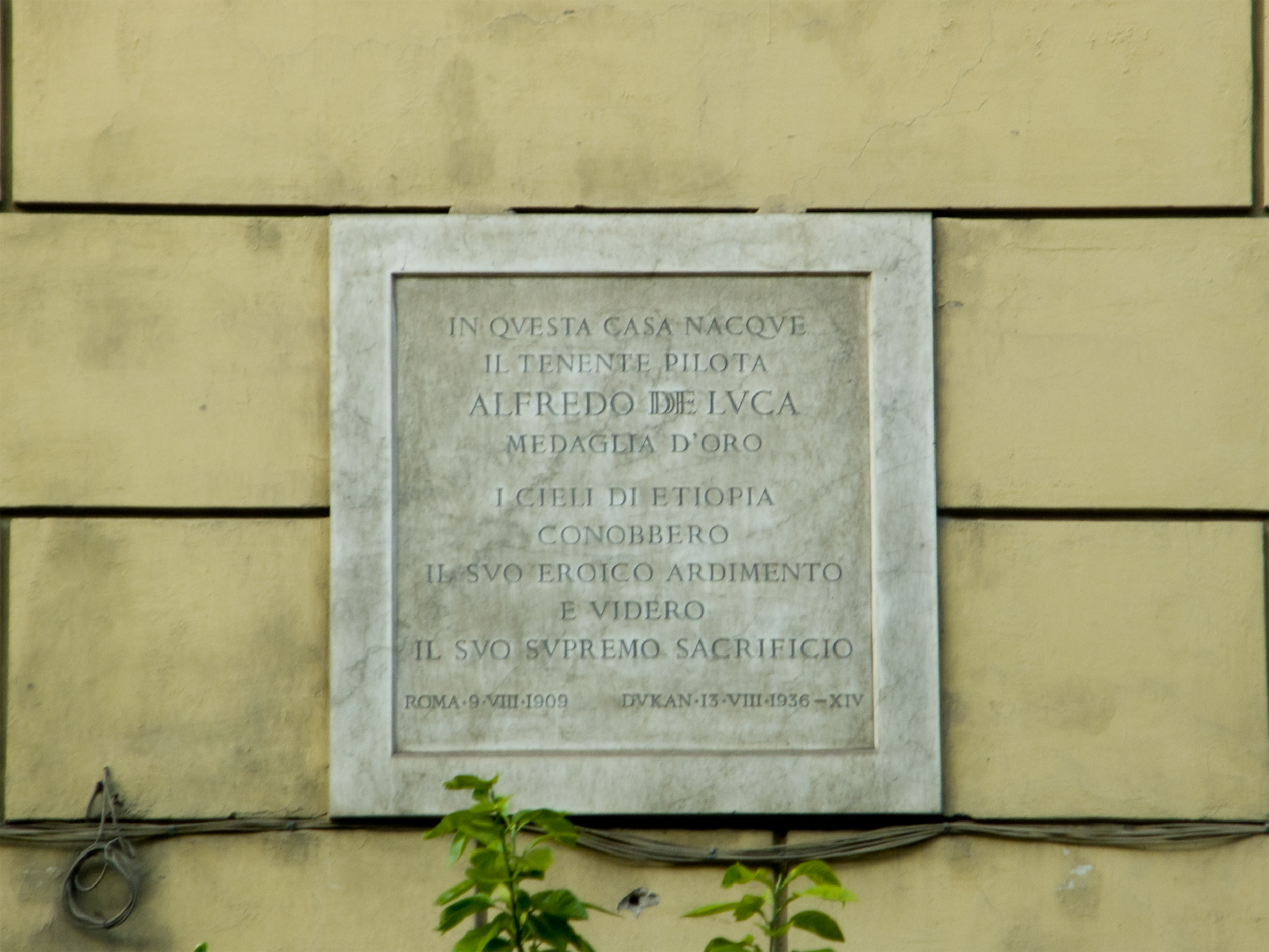 Rome, Italy - Plaque devoted to Alfredo De Luca, placed in Via XX Settembre 42